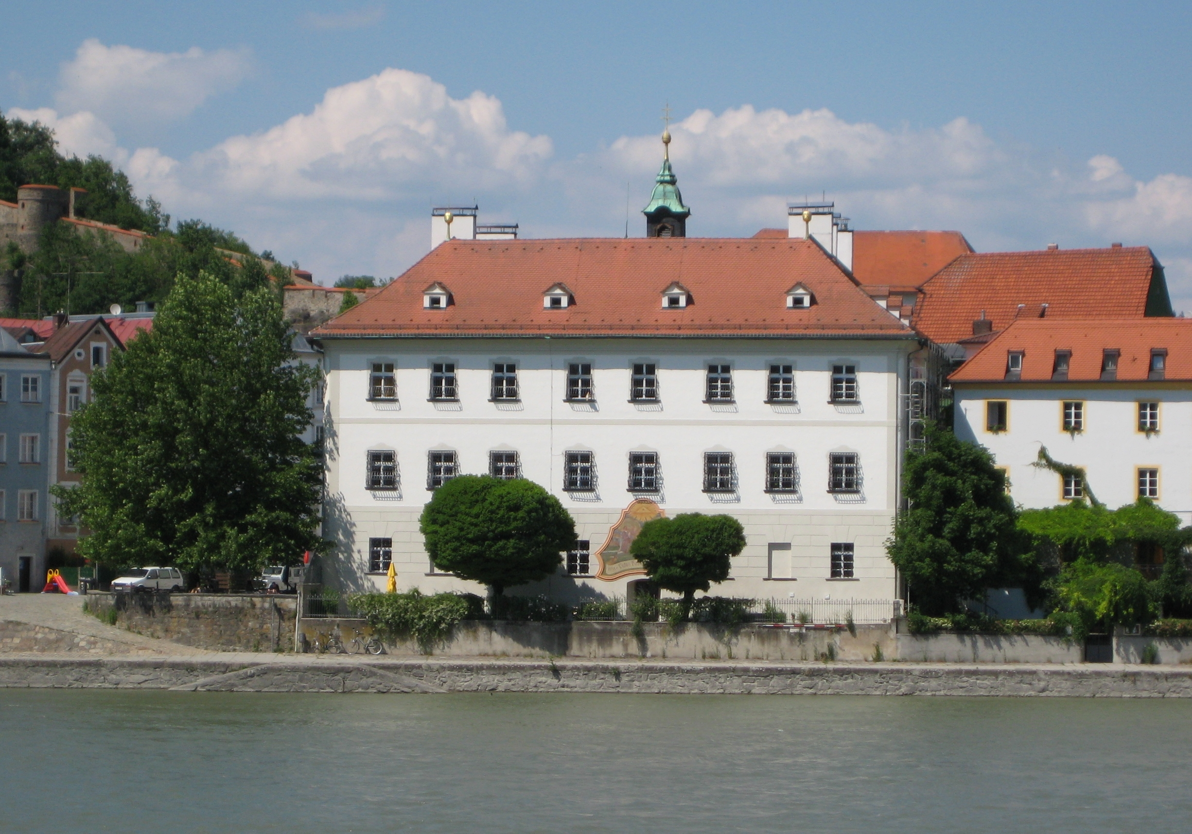 Orphanage at Passau